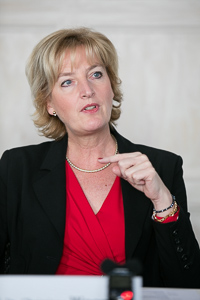 Prof. Dr. Christiane Woopen University of Cologne, Executive Director of the Cologne Center for Ethics, Rights, Economics and Social Sciences of Health (ceres) Photograph by Matti Hillig at a conference in Berlin on 24 November 2015.